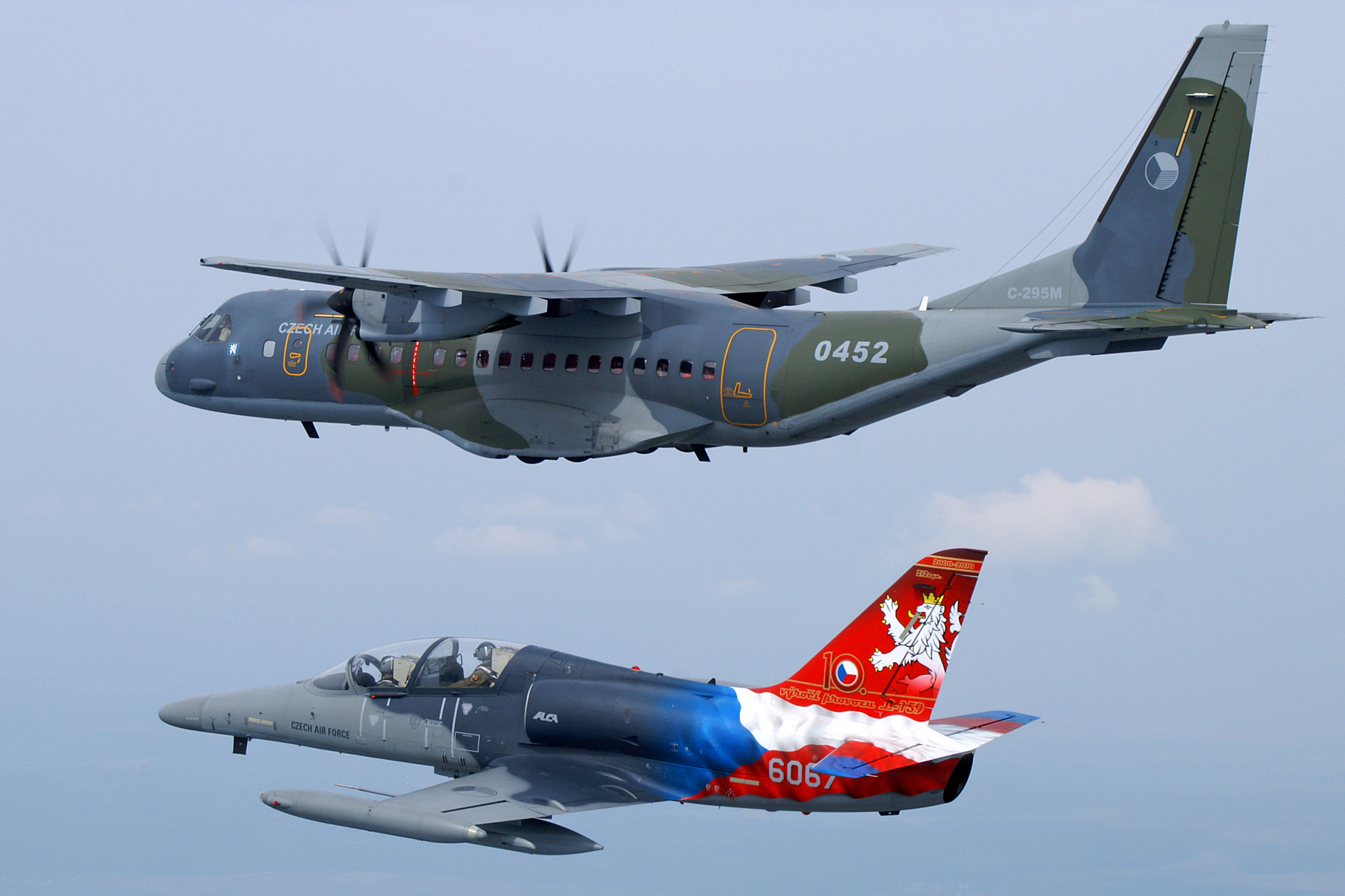 Czech Air Force Aero L-159 and CASA C-295 inflight